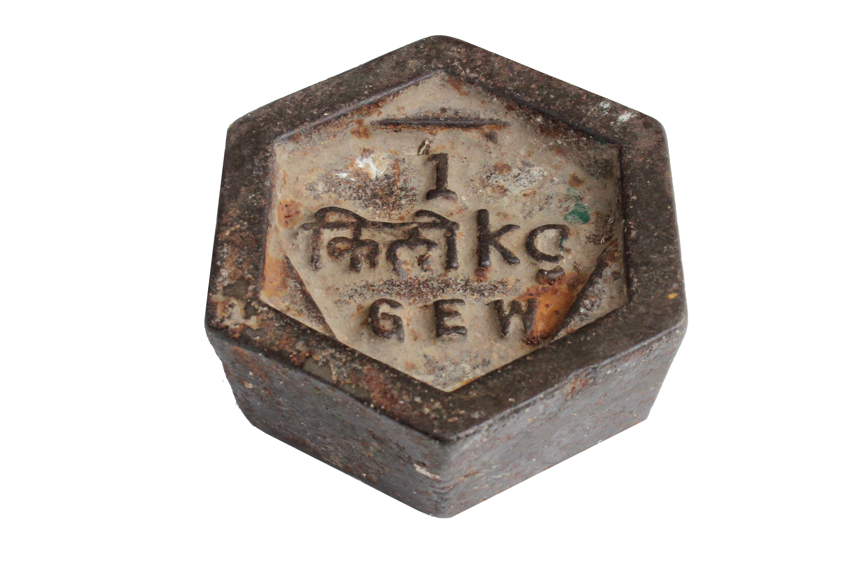 1KG weight for measurment India